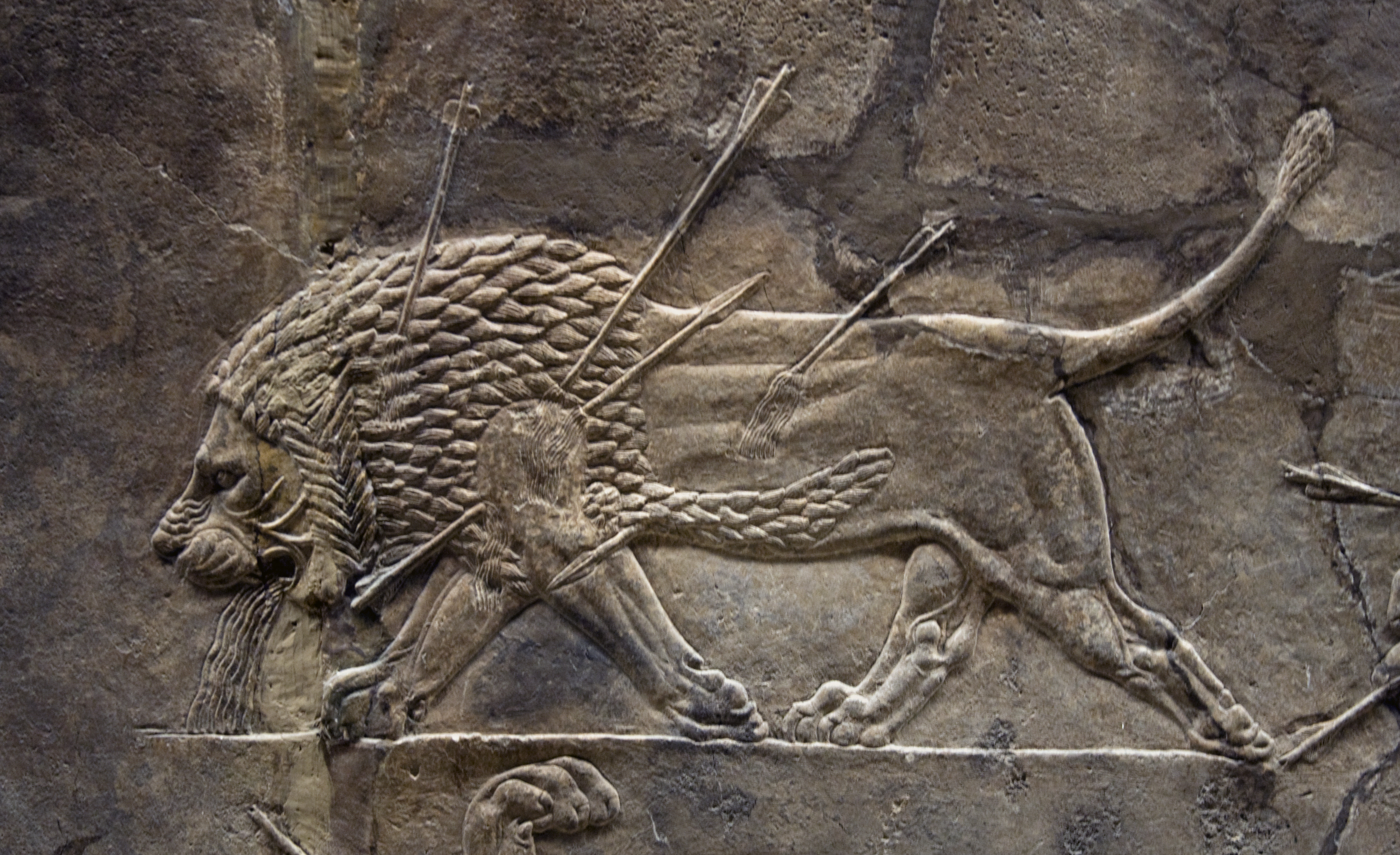 Assyrian relief from Nineveh, depicting a dying lion. Tag from exhibit says "Courtiers watching lion hunts. Assyrian, about 645-635 BC. From Nineveh, North Palace, Room S, panel 6, top and middle rows. WA 124882". See BM database entry for more details.